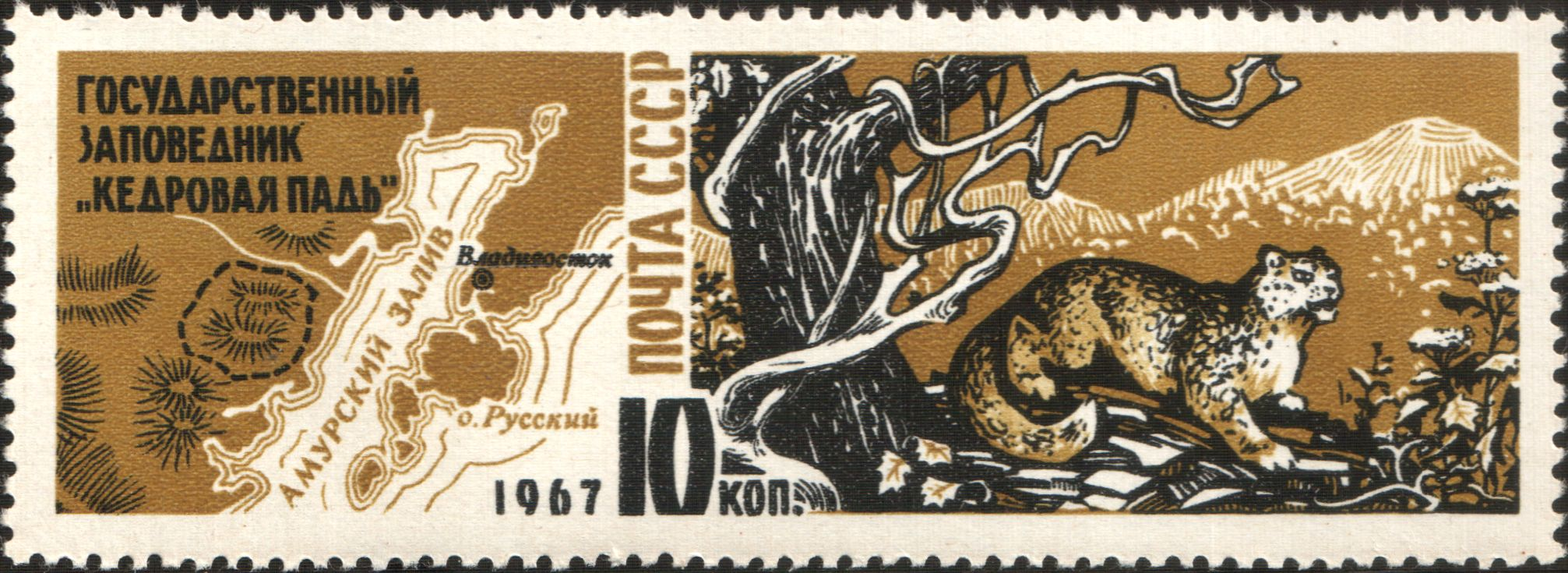 A USSR stamp